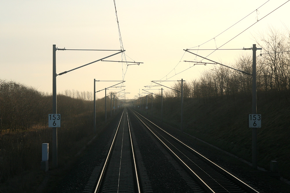 The Great Bustard protection area on the Hannover-Berlin high-speed railway line. Notice the fairly low construction height of the catenary and an artificial earth wall. These measure are to help the bustards to fly above the railway tracks.